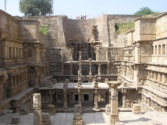 Taken picture during October 2005 visit for personal use. Dattu Prajapati